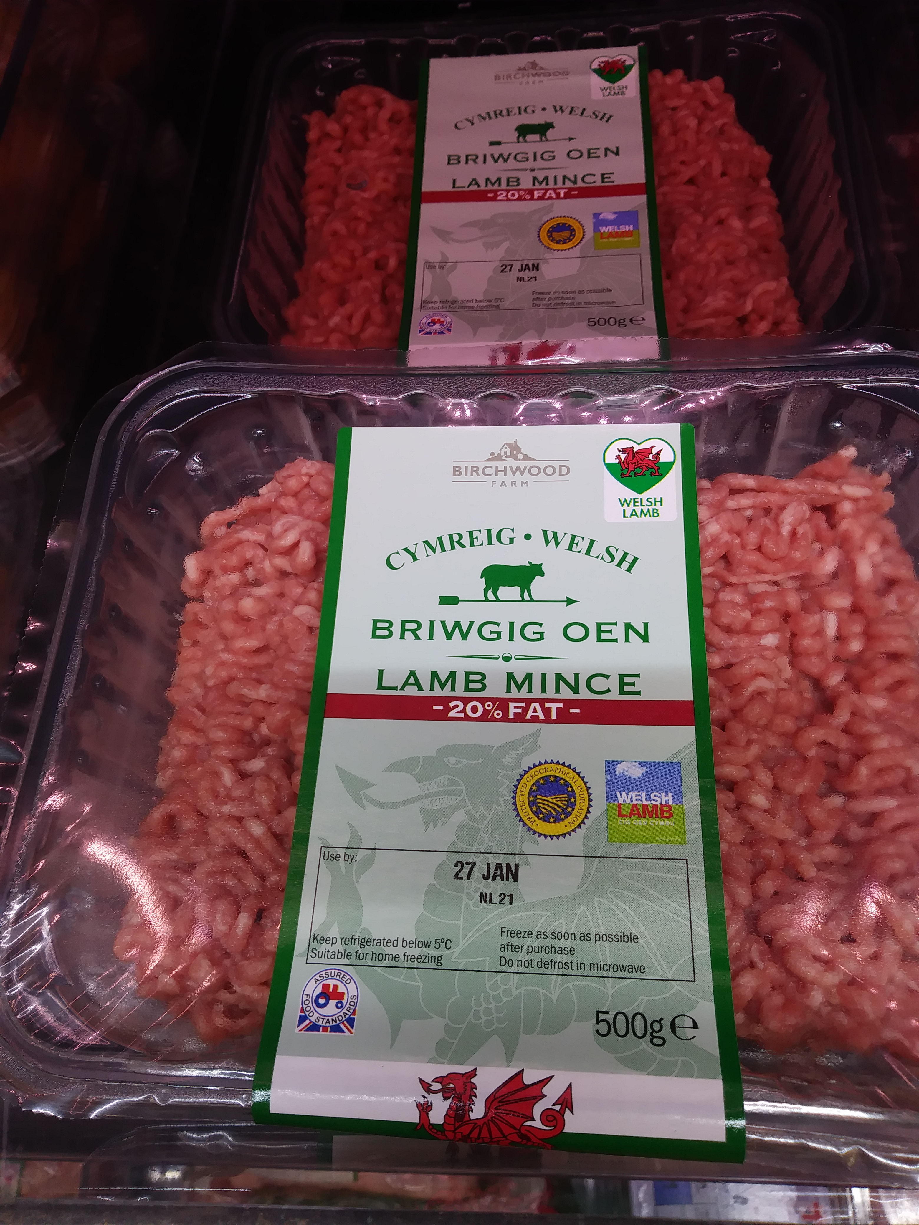 Minced meat with bilingual packaging in Wales